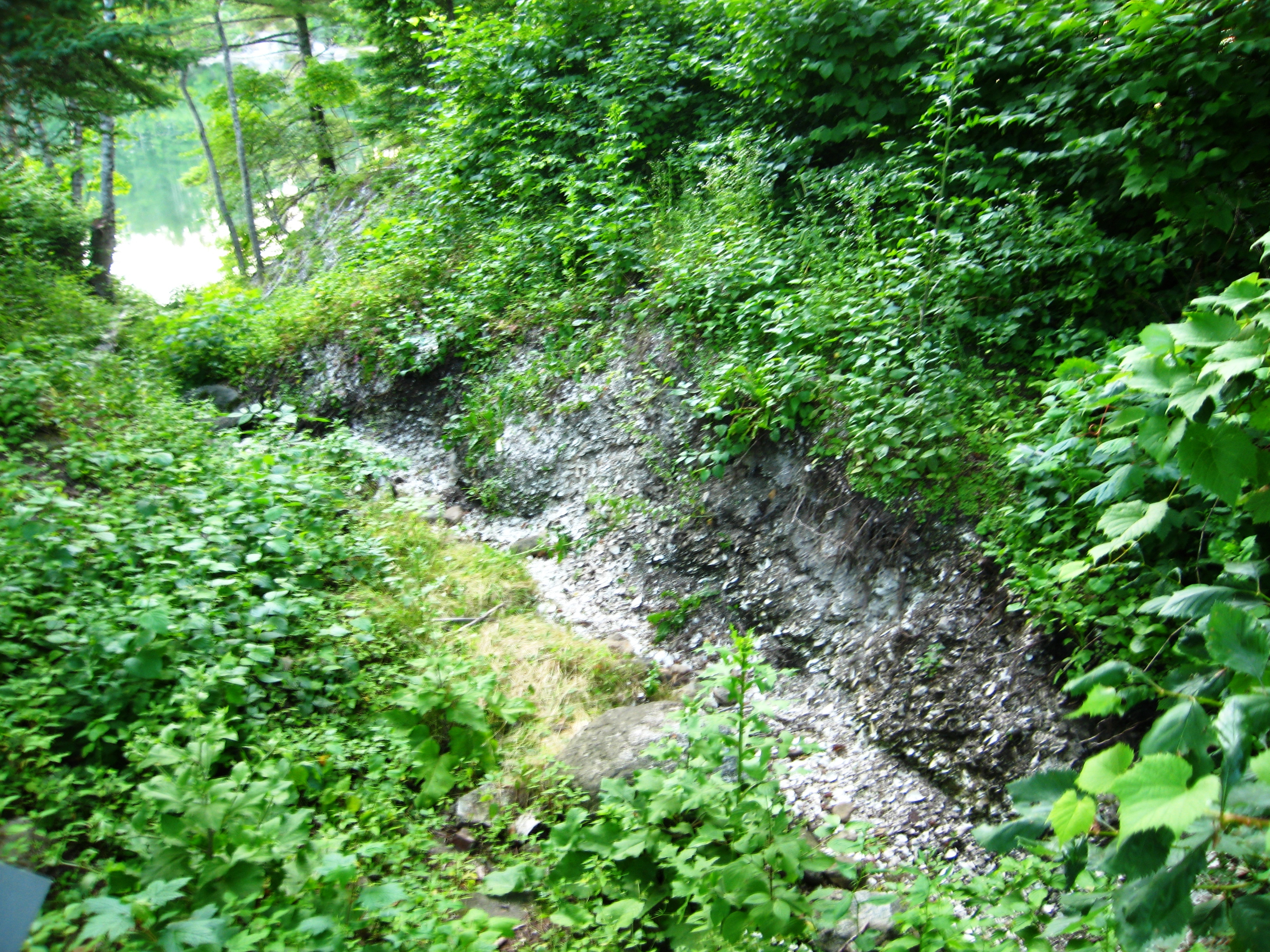 View from atop the Whaleback Shell Midden looking down a gully toward the Damariscotta River in Maineen.